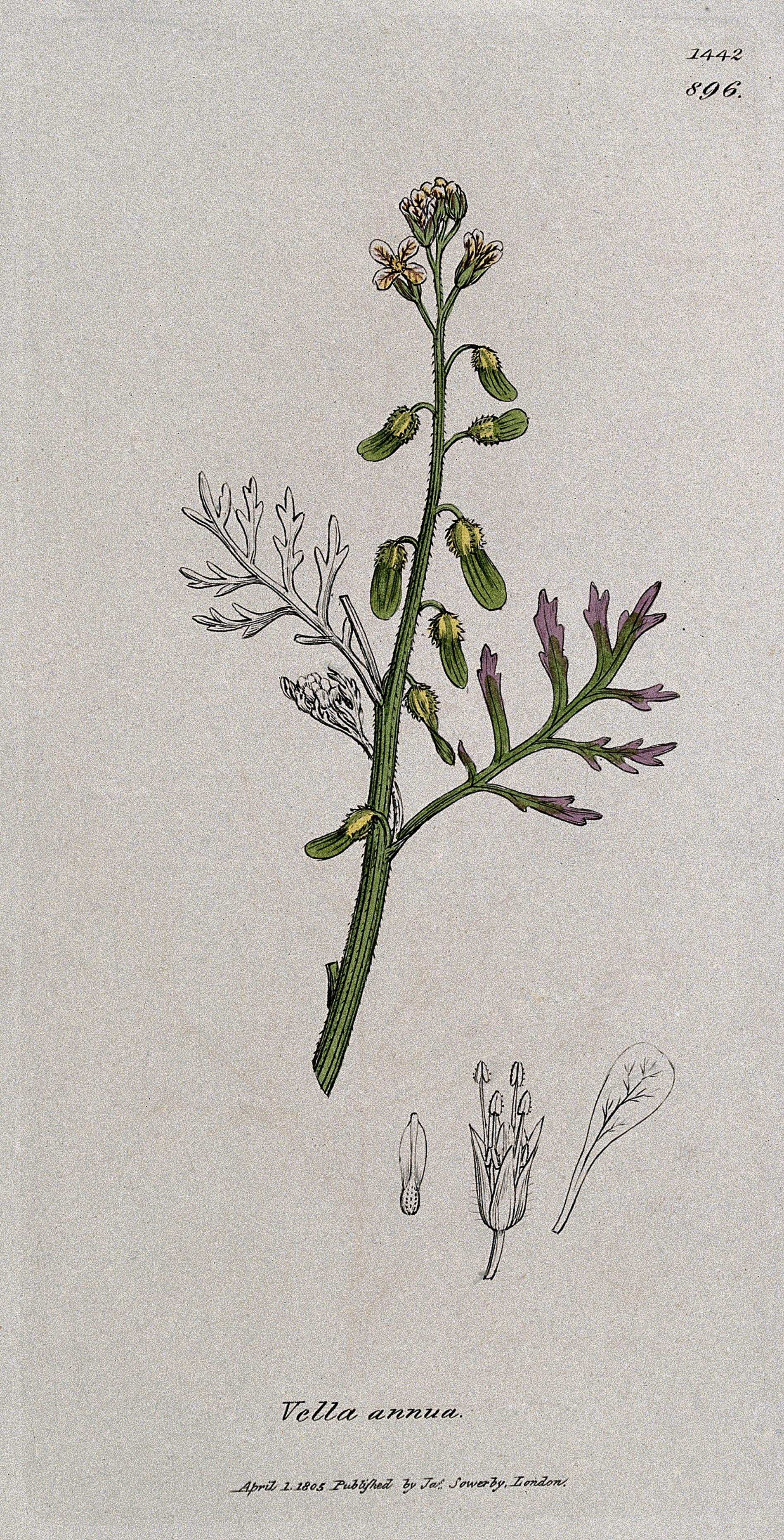 A plant (Vella annua): flowering stem and floral segments. Coloured engraving after J. Sowerby, 1805. Iconographic Collections Keywords: James Sowerby; James Edward Smith